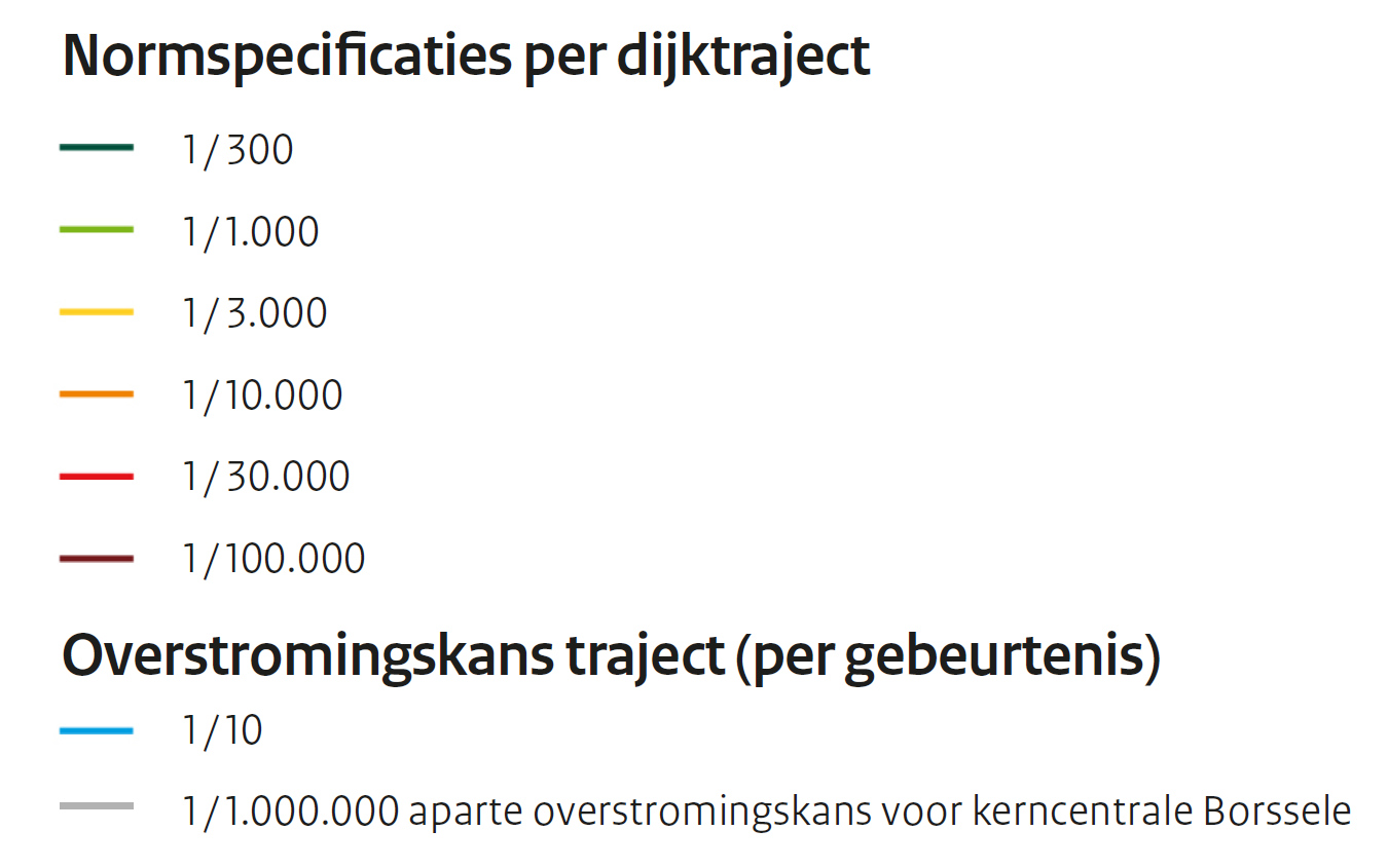 Legenda to the dike sections in the Netherlands were the allowable inundation probability (failure probability) is given in the Water Law (Northern Netherlands)